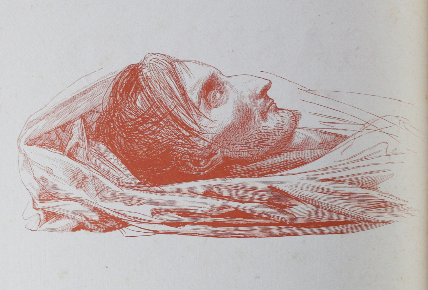 Death portrait of Louis Bertrand , ACE1841 Drawing by Pierre-Jean David (March 12, 1788 – January 4, 1856),Louis-Jacques-Napoléon “Aloysius” Bertrand (20 April 1807 – 29 April 1841)